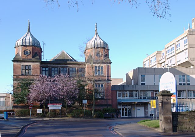 Derbyshire Royal Infirmary. The DRI dates back to 1810, and has a hotch-potch of Victorian and modern(?) concrete architecture. Services are steadily being moved to the out-of-town City Hospital site, and ultimately the whole DRI site is under threat.